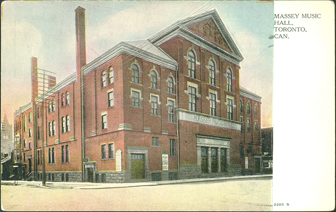 Postcard of Massey Music Hall, Toronto, Canada.